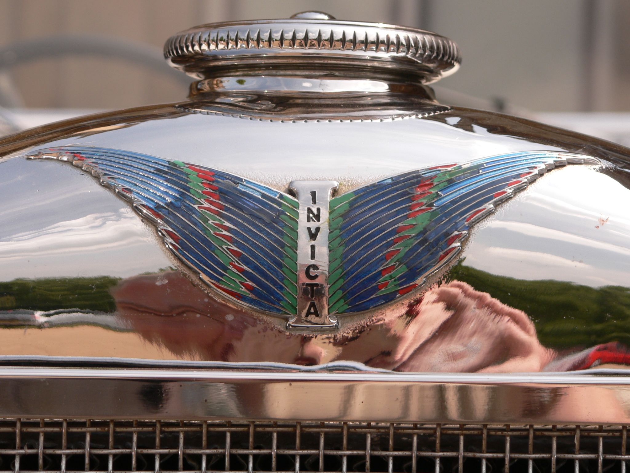 Invicta logo on Invicta 4½-Litre S-Type 'Low Chassis' Sports registration PL 5676